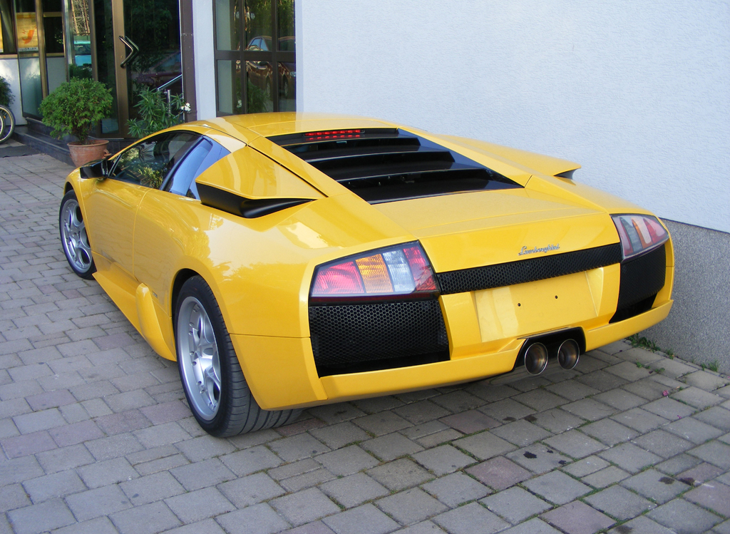 A yellow Lamborghini Murciélago parked in Ohrid, Republic of Macedonia.